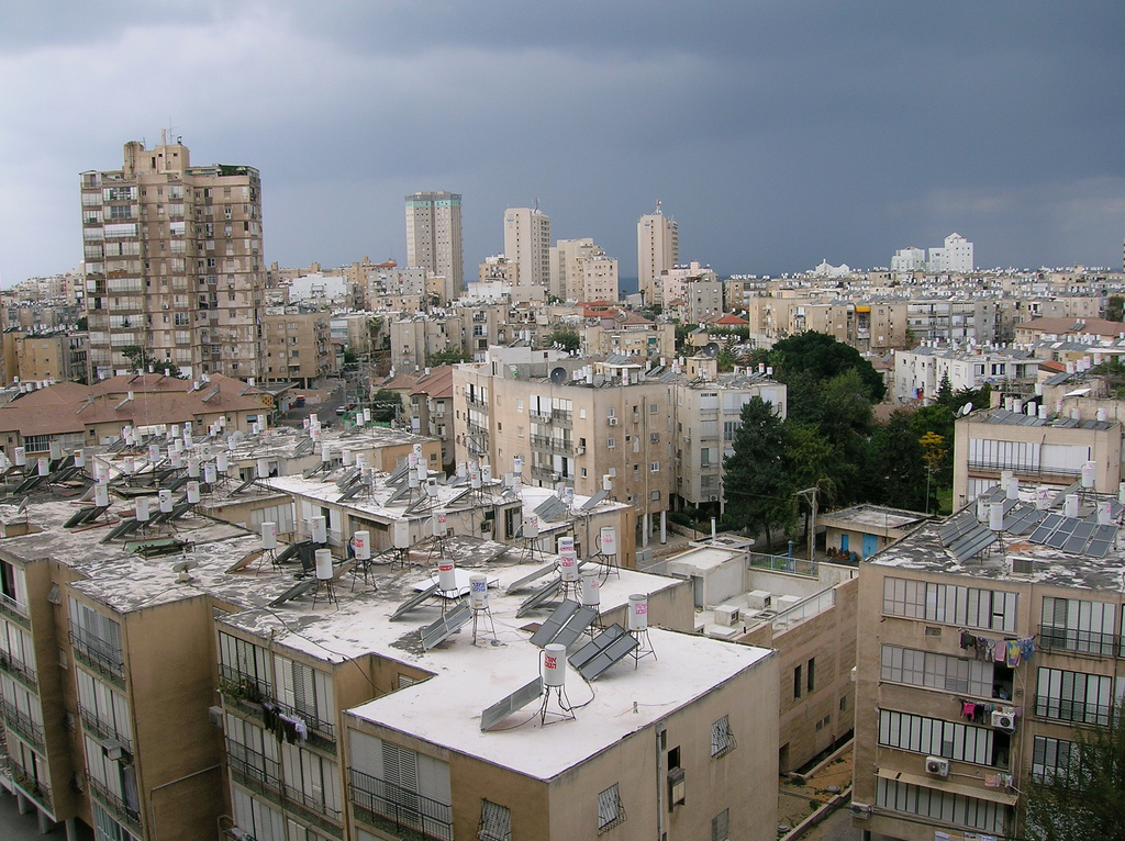 A view of Bat Yam